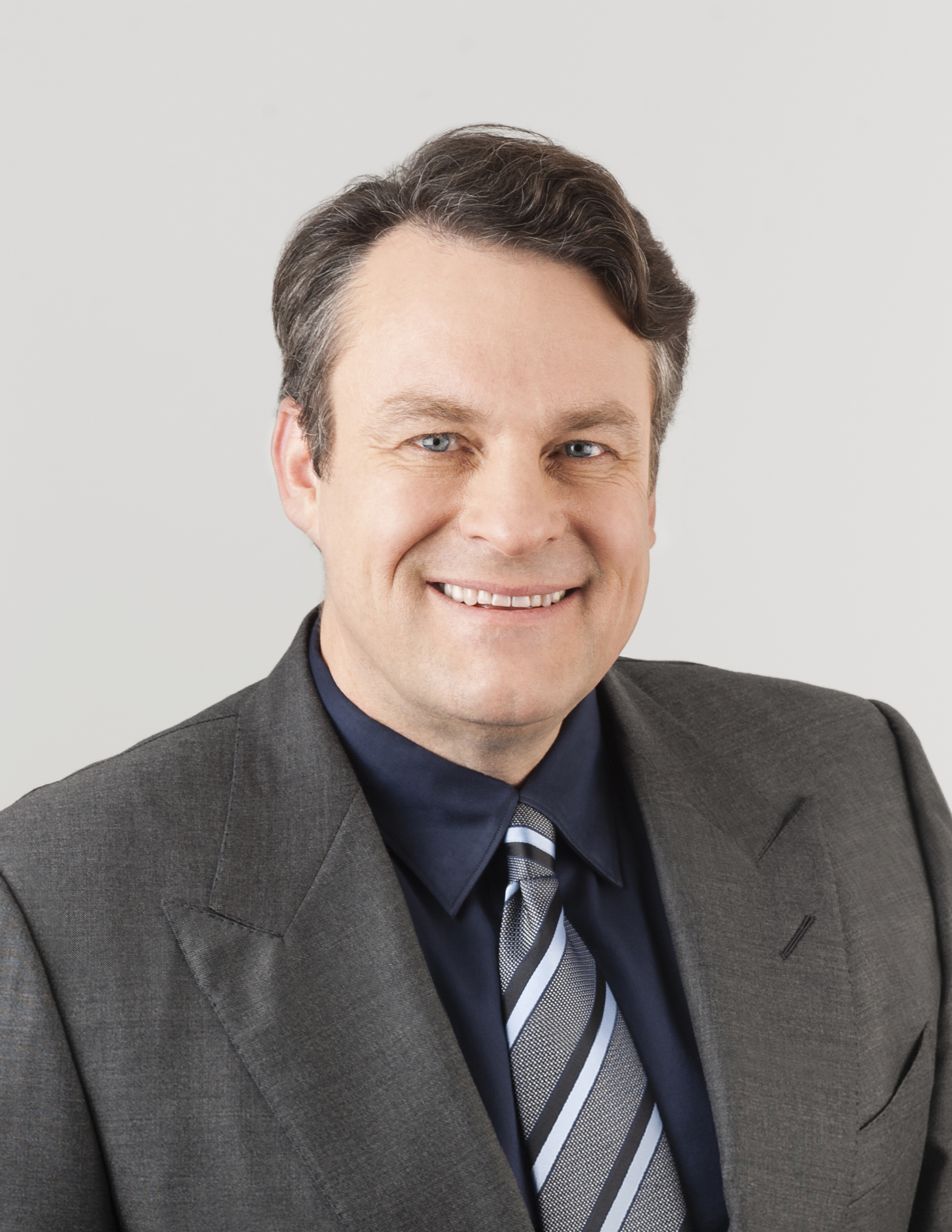 Headshot of Dr. Jay Short